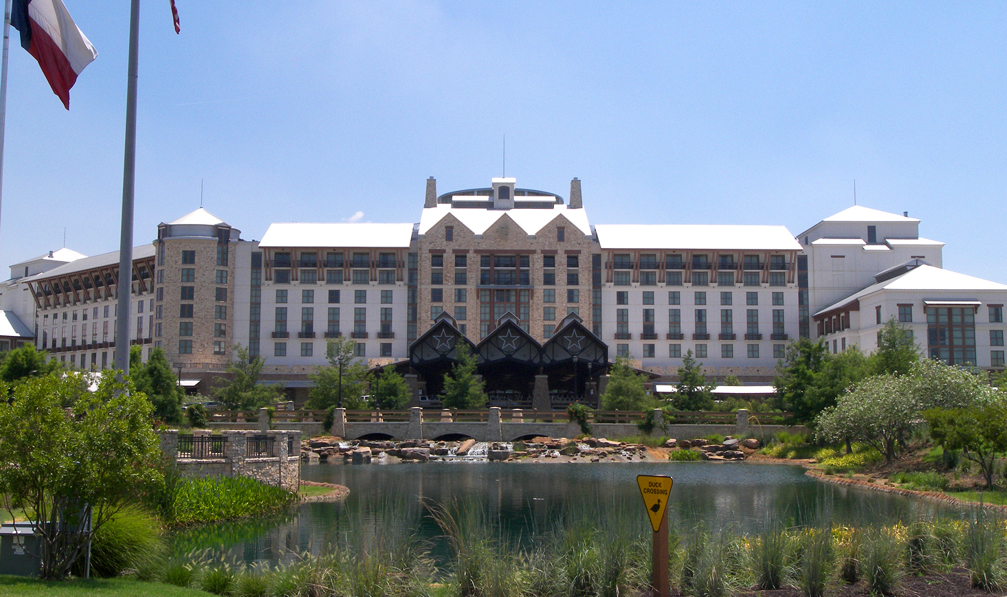 The Gaylord Texan Resort Hotel & Convention Center located in Grapevine, Texas, United States.